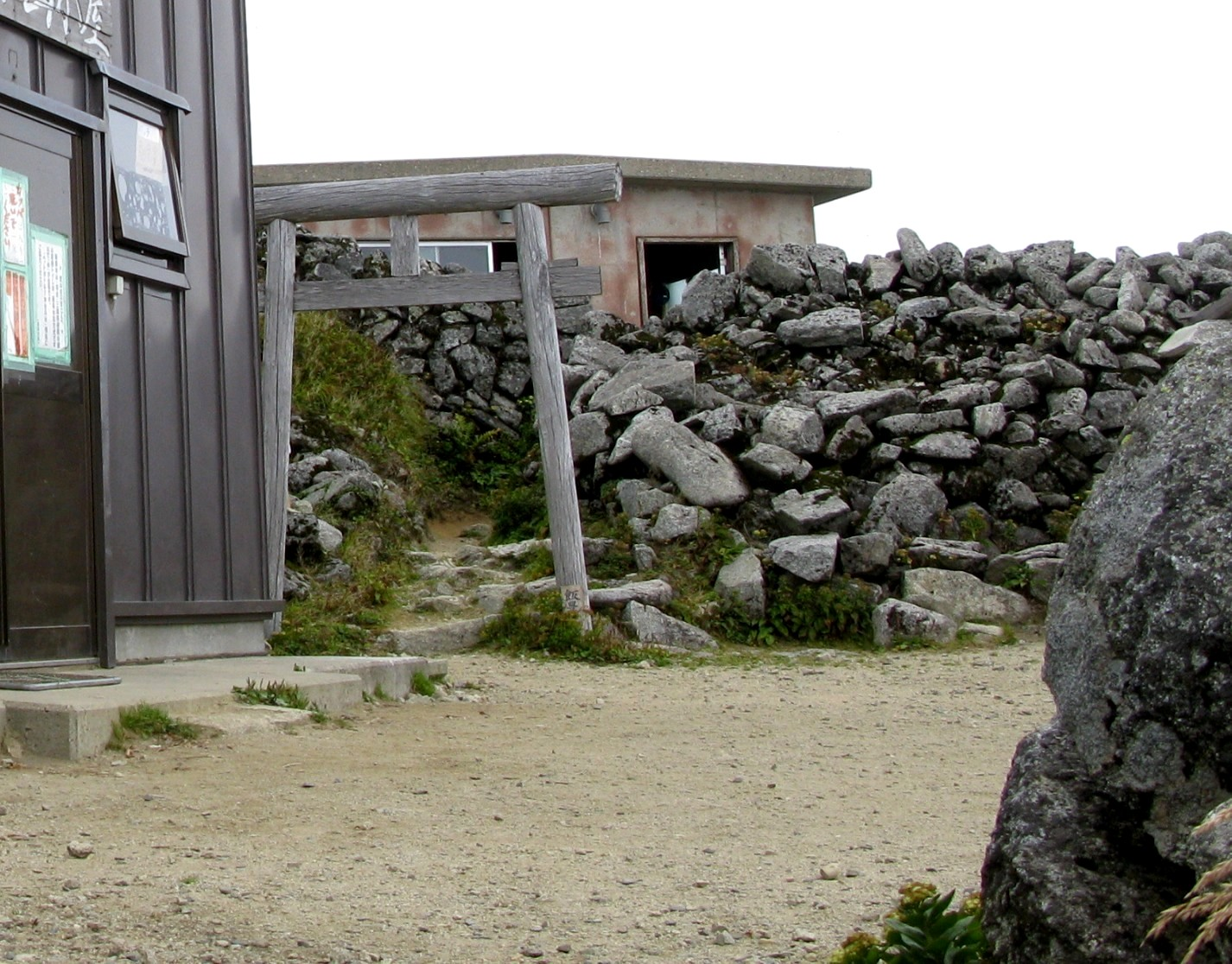 Shrine Iide-san-jinja, Kitakata city, Fukushima pref., Japan